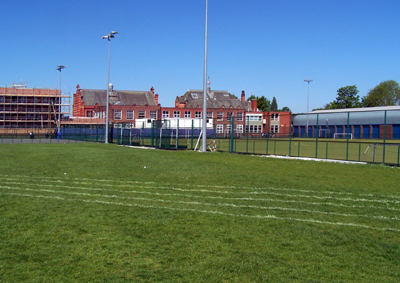 WHGS buildings and fields